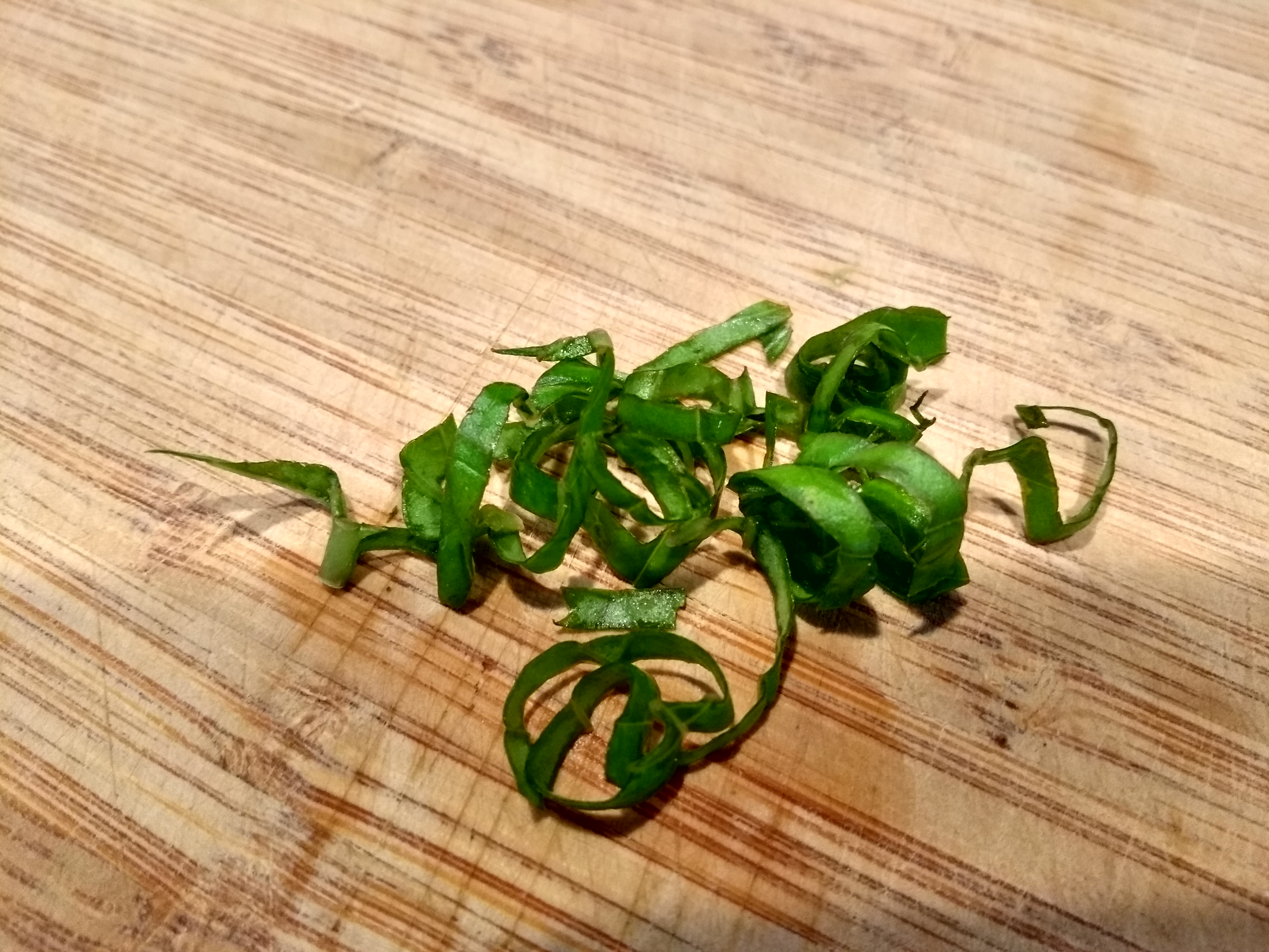 A basil leaf cut in chiffonade fashion